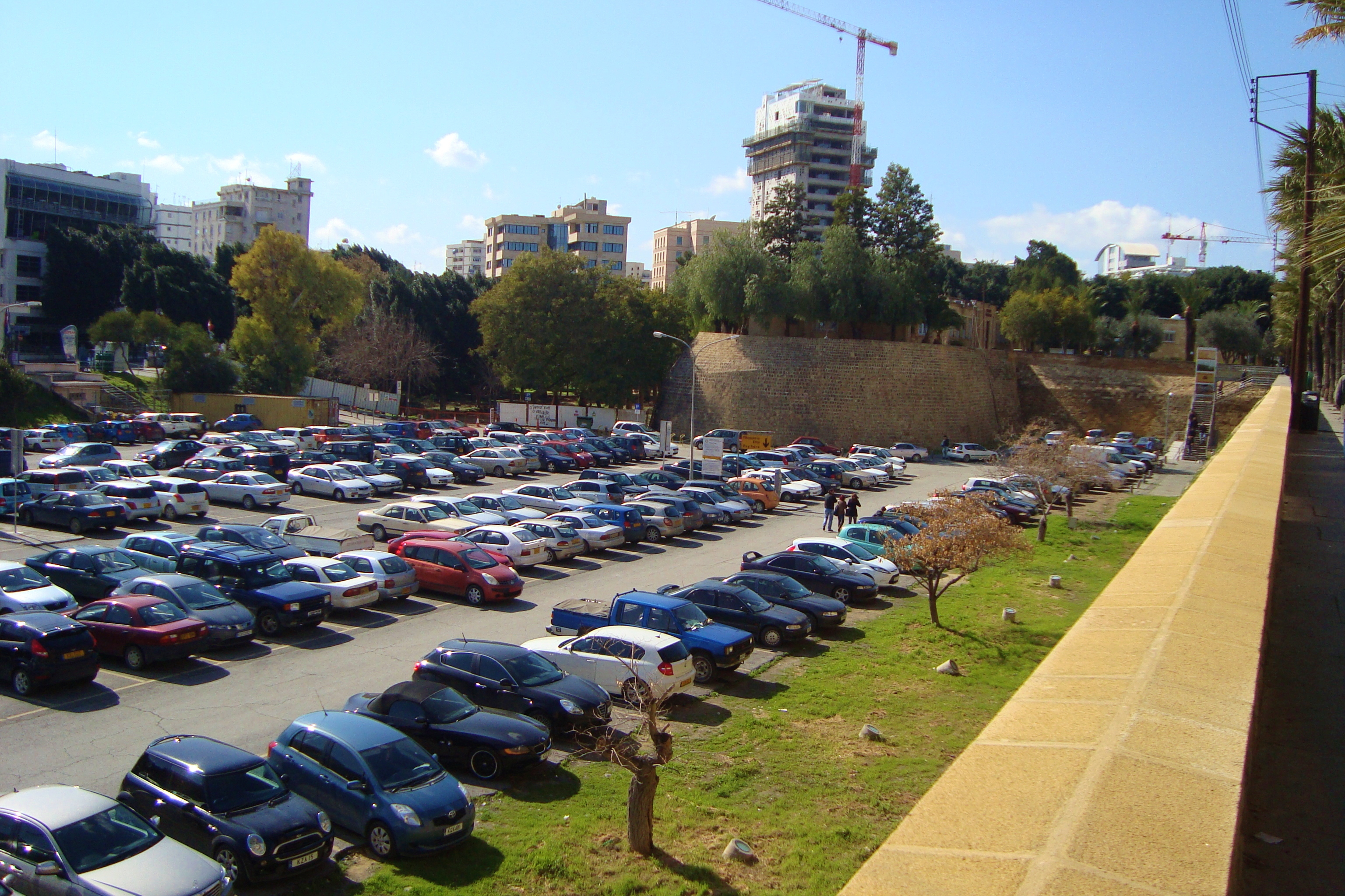 Downtown Nicosia in the evening Republic of Cyprus